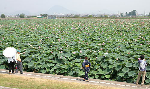 Lotus pond at Karasuma Peninsula, Kusatsu, Shiga Prefecture. Photo by Philbert Ono.